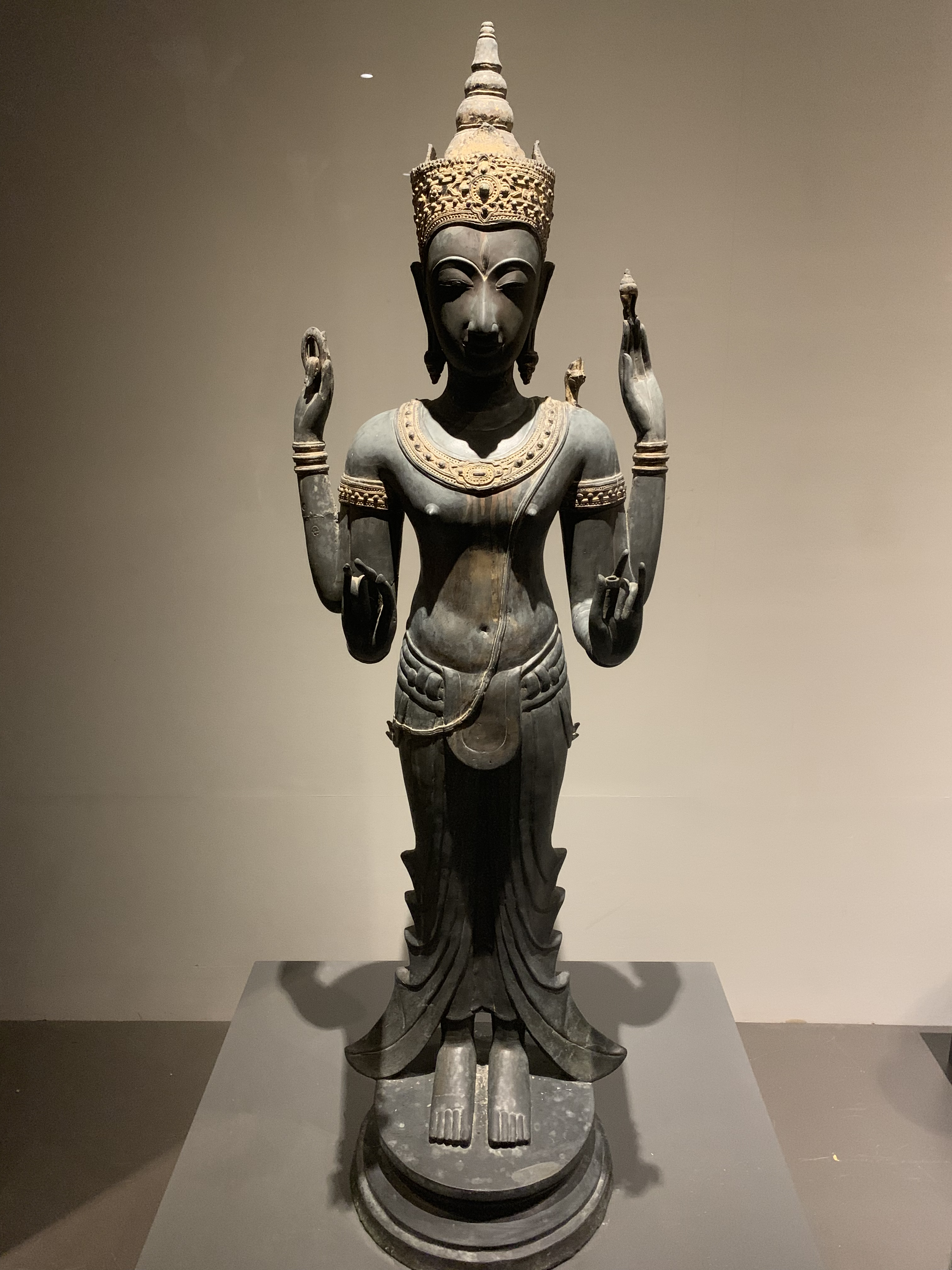 Hari Hara figurine, Bangkok National Museum